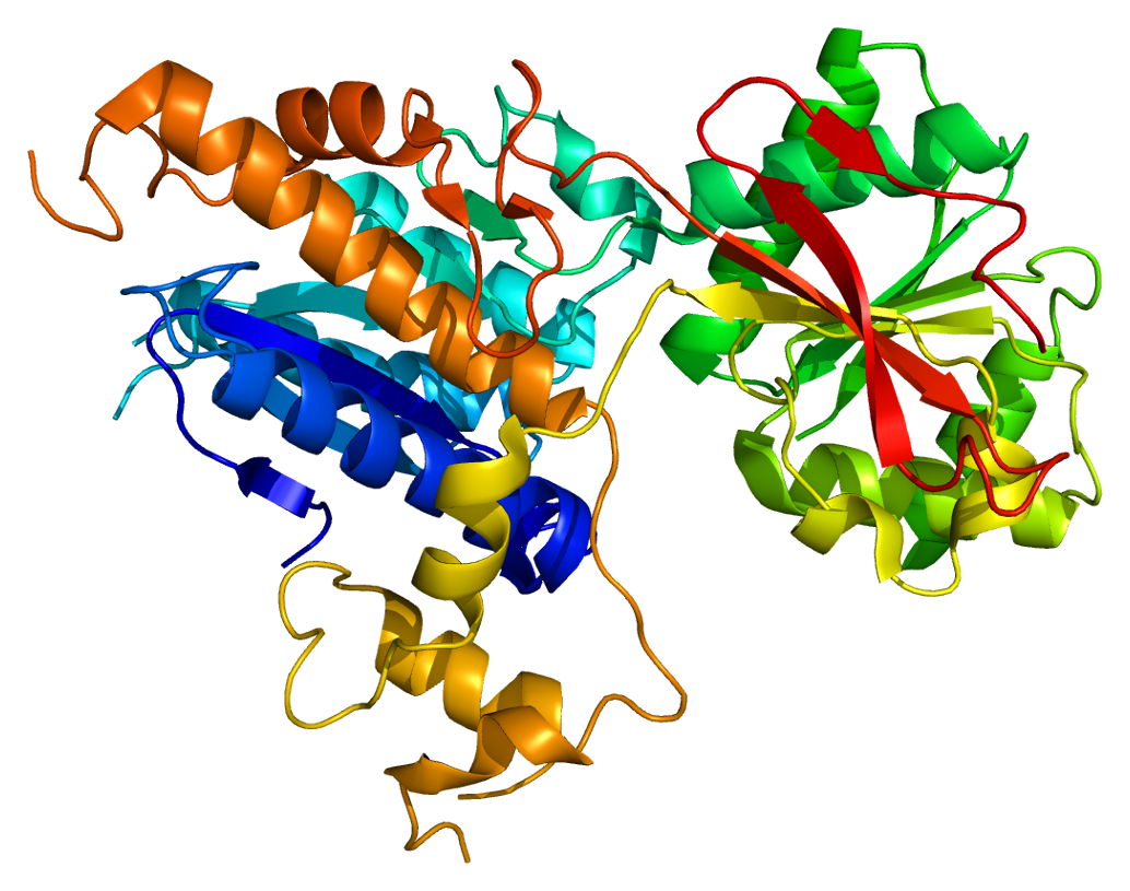 Structure of the GRM7 protein. Based on PyMOL rendering of PDB 2e4z.